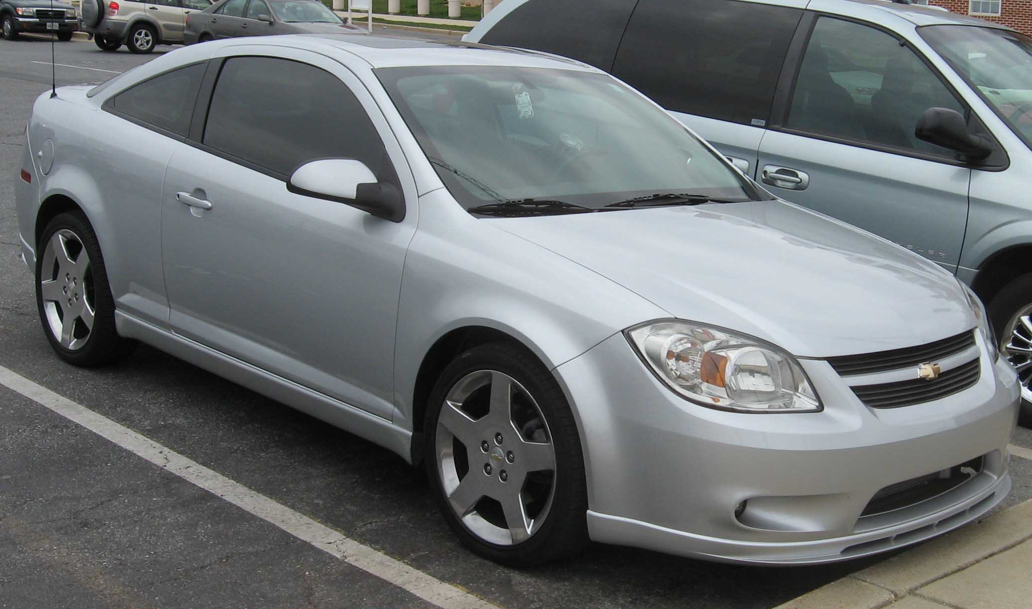 Chevrolet Cobalt photographed in College Park, Maryland, USA.